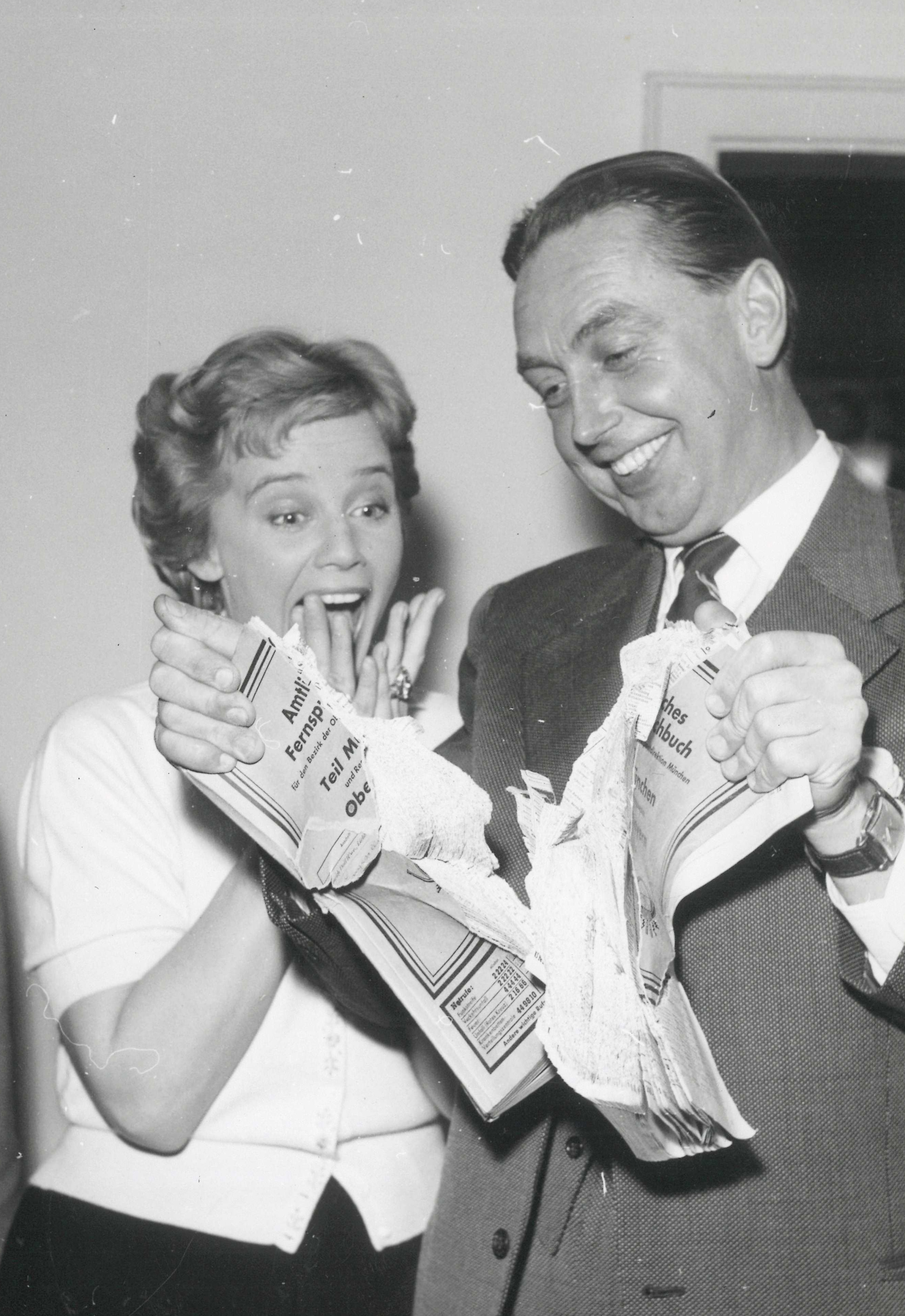 Diving pioneer Hans Hass demonstrates in 1950 how to tear a telephone directory - a technique he had learned by Felix von Luckner.